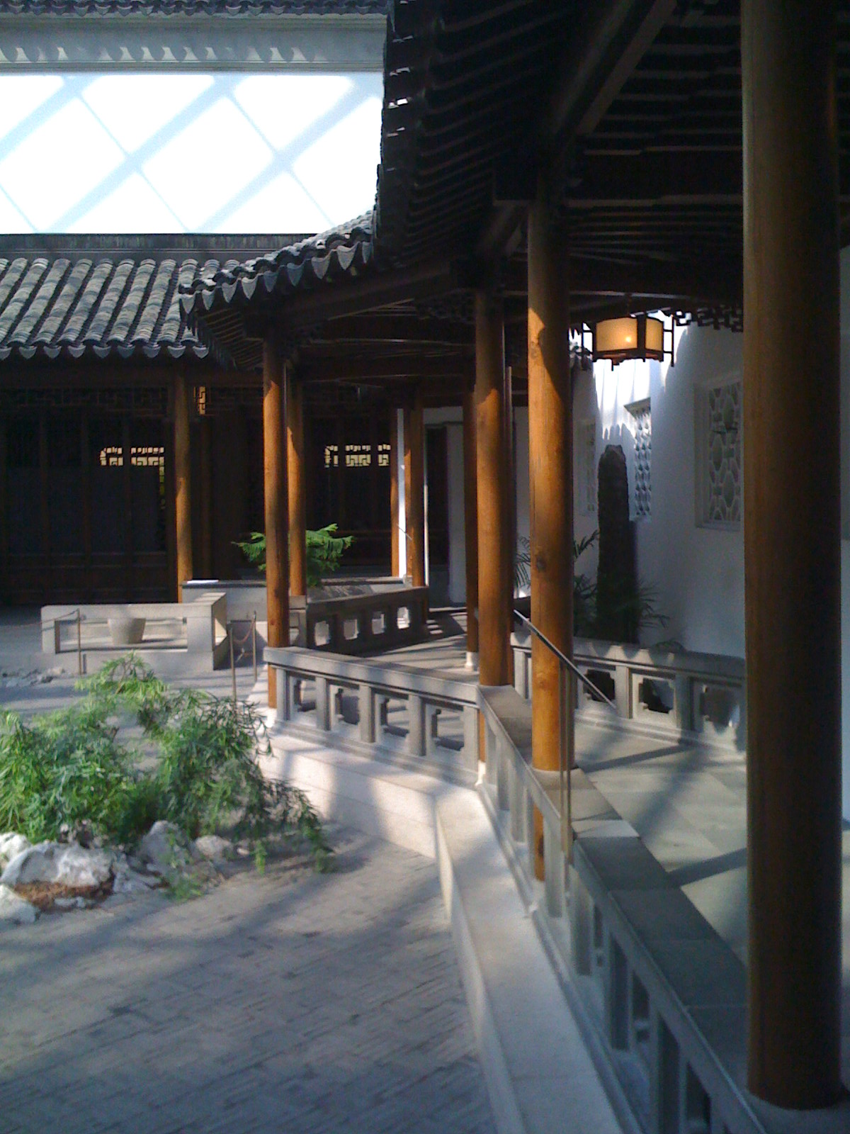 Astor Court in Metropolitan Museum of Art, New York USA, looking north along colonnade